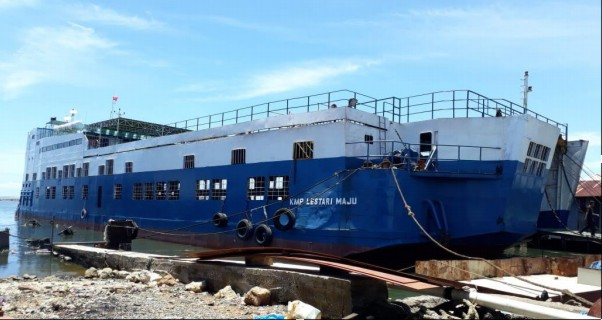 MV Lestari Maju after its successful salvage operation in Selayar Islands, South Sulawesi